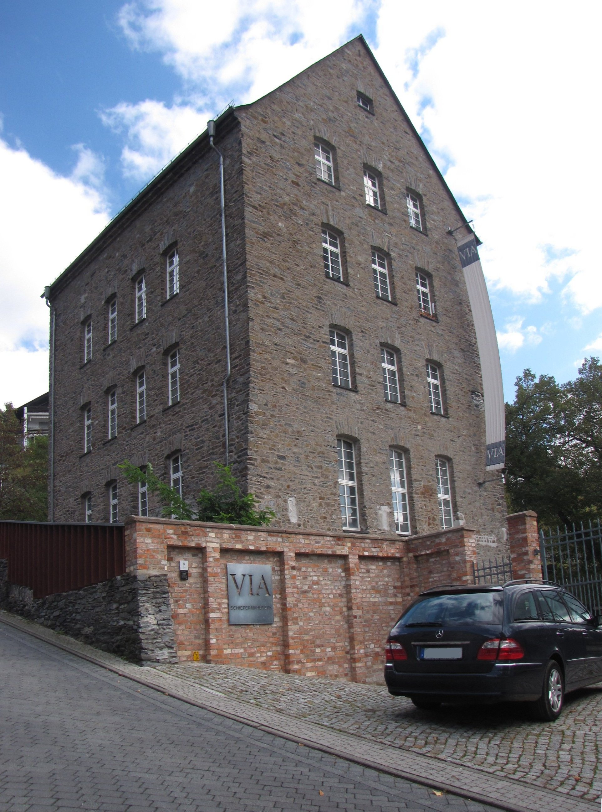 Wilhelm-Erbstollen slate quarry factory Kaub